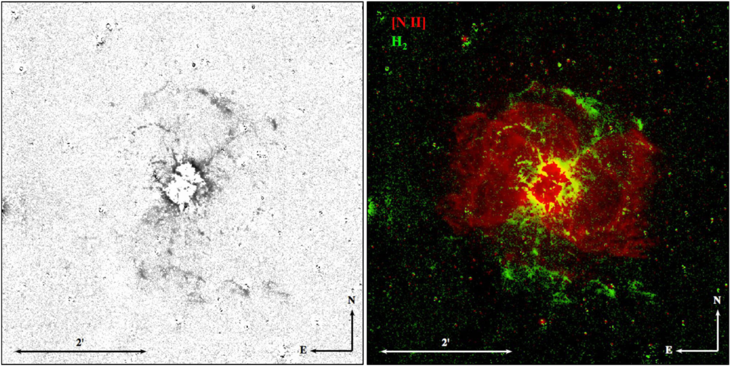 Left: residual H2 image of NGC 6445 created by subtracting the scaled Brγ image from the H2 image. Right: color-composite image of NGC 6445 created with the [N ii] (red) and the residual H2 (green) images. In order to alleviate the effects of the dense stellar field and better show the faint halo in H2, a residual image of NGC 6445 was created by subtracting the scaled Brγ image from H2. The factor used to scale the Brγ image was carefully chosen so that emissions of stars are mostly removed, and the nebular structures are best seen in the residual image. The [N ii] image was obtained by the Andalucía Faint Object Spectrograph and Camera (ALFOSC) on the 2.5 m Nordic Optical Telescope (NOT) at the Observatorio del Roque de los Muchachos (ORM, La Palma, Spain) in 2009 June.